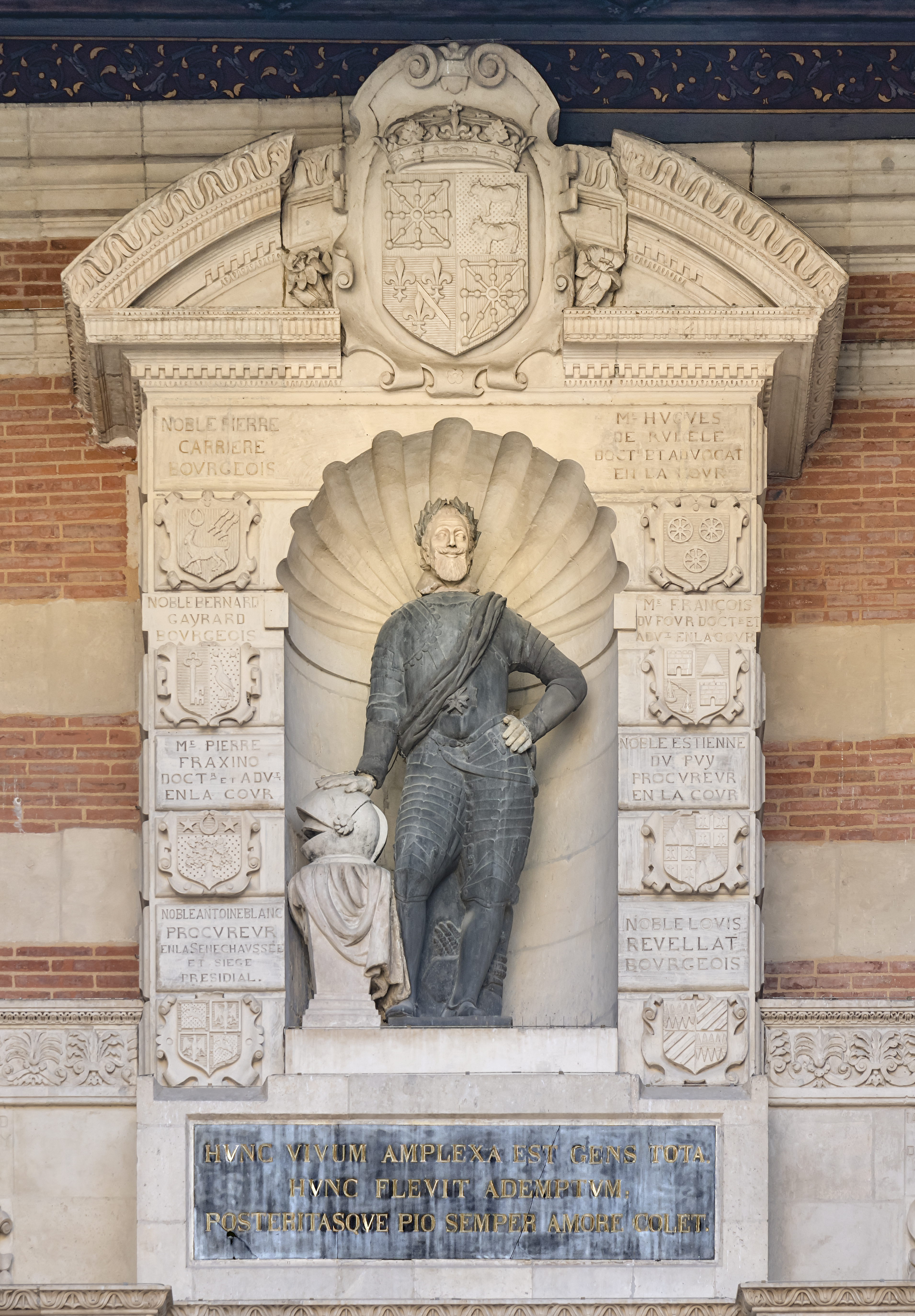 Capitole de Toulouse the court Henri IV - Status in polychrome marbles of Henry IV by Thomas Hurtamat in 1607. Under the statue, one can read an inscription dating from the Revolution: "Alive, the whole people will love him, he wept for him when he was taken away, posterity will never cease to love him with pious love"